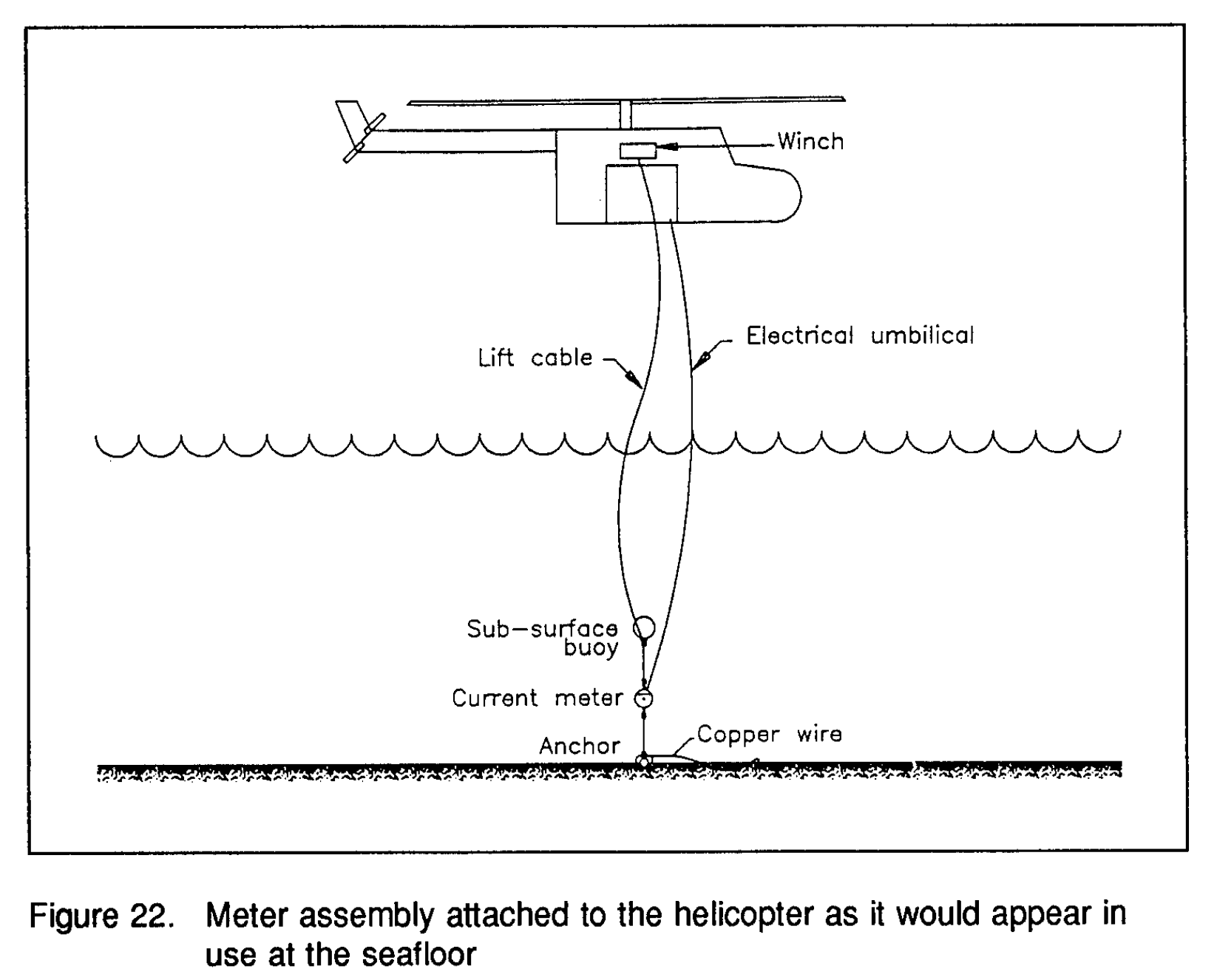 Diagram shows data collection system using helicopter, buoy, and bathometric device